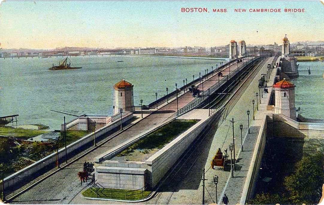 New Cambridge Bridge, later renamed Longfellow Bridge. Note how the MIT campus does not yet exist in the background of this view from Boston to Cambridge, with the Harvard Bridge in the distance. This dates the image to before 1916. Also, note that the Cambridge Subway (Red Line) tracks on the bridge have yet to be connected to anything. This dates the image to before 1912.